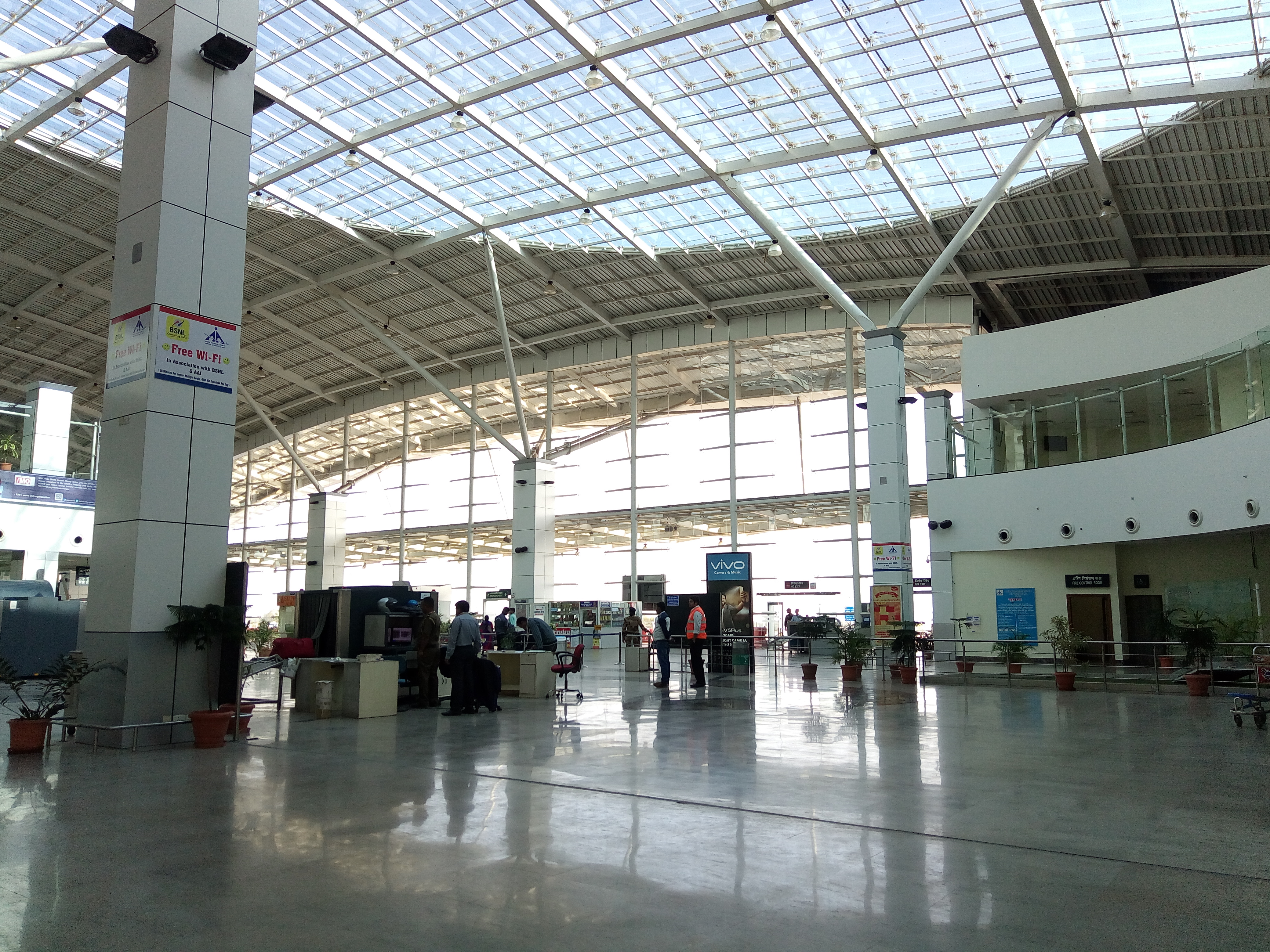 Bhopal Airport Inside